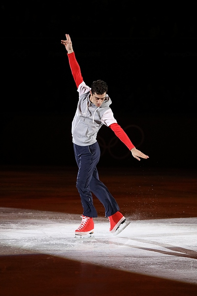 Gala exhibition at the 2018 Winter Olympics